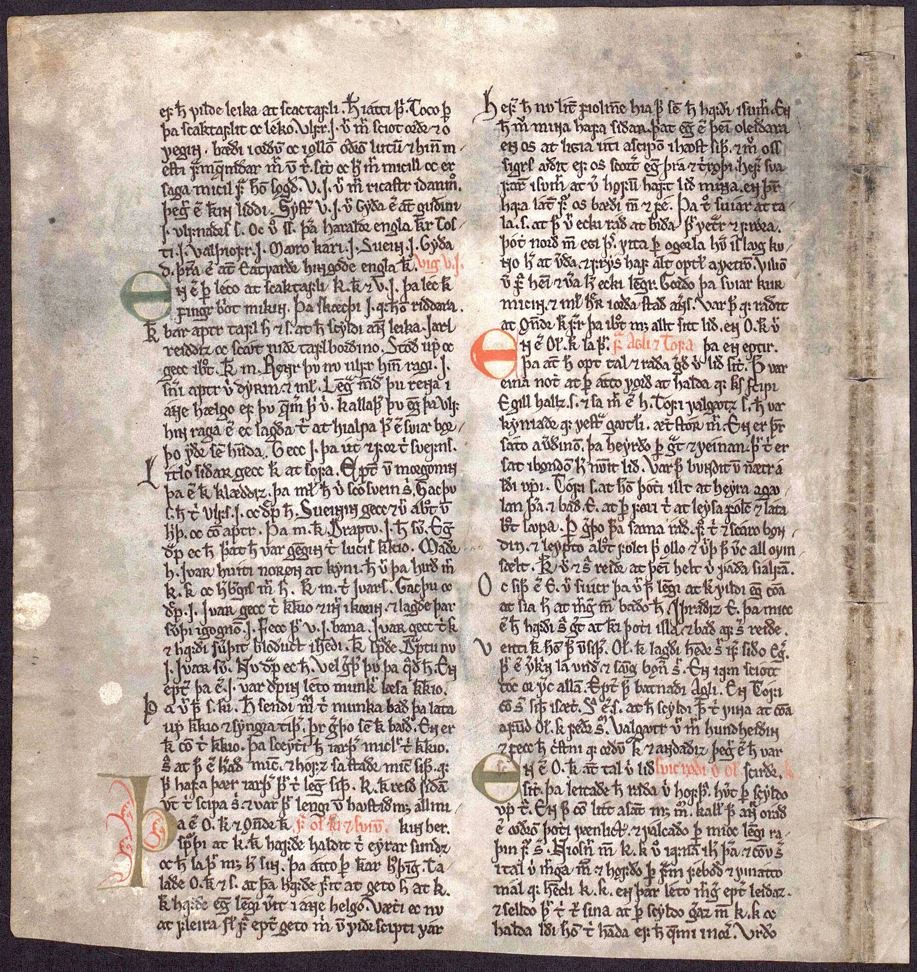 Kringlublaðið [the Kringla leaf] is a vellum manuscript leaf, dated c. 1260, the only one to survive from a manuscript called Kringla that was destroyed in the 1728 great fire of Copenhagen. Kringla was well known as the best manuscript of the great set of historical sagas known as Heimskringla, written by the thirteenth-century writer and statesman Snorri Sturluson (1178-1241). The leaf was found in the Royal Library in Stockholm, and is likely to have been in Stockholm from the late seventeenth century. During his state visit in Iceland in 1975 King Carl Gustav XVI presented the manuscript leaf to the Icelandic people for preservation in the National Library. The text to be found on the leaf is from Óláfs saga helga [the saga of King Ólafur the Saint], the longest of Heimskringla's 16 sagas about the kings of Scandinavia.